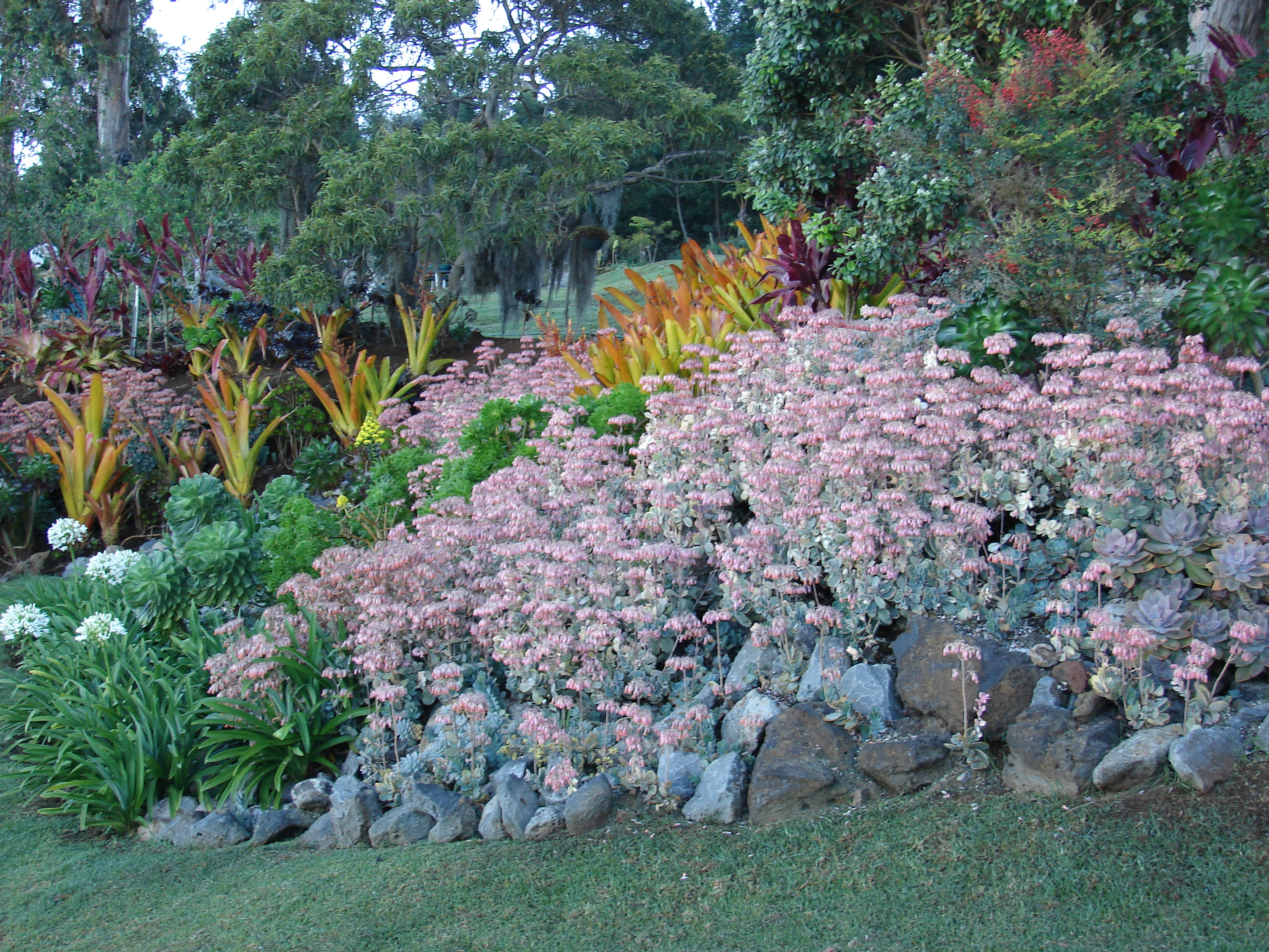 Kalanchoe fedtschenkoi (flowering habit). Location: Maui, Waipoli Rd Kula